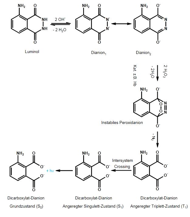 Oxidation of Luminol with emitting chemiluminescence. Created with C-Design.